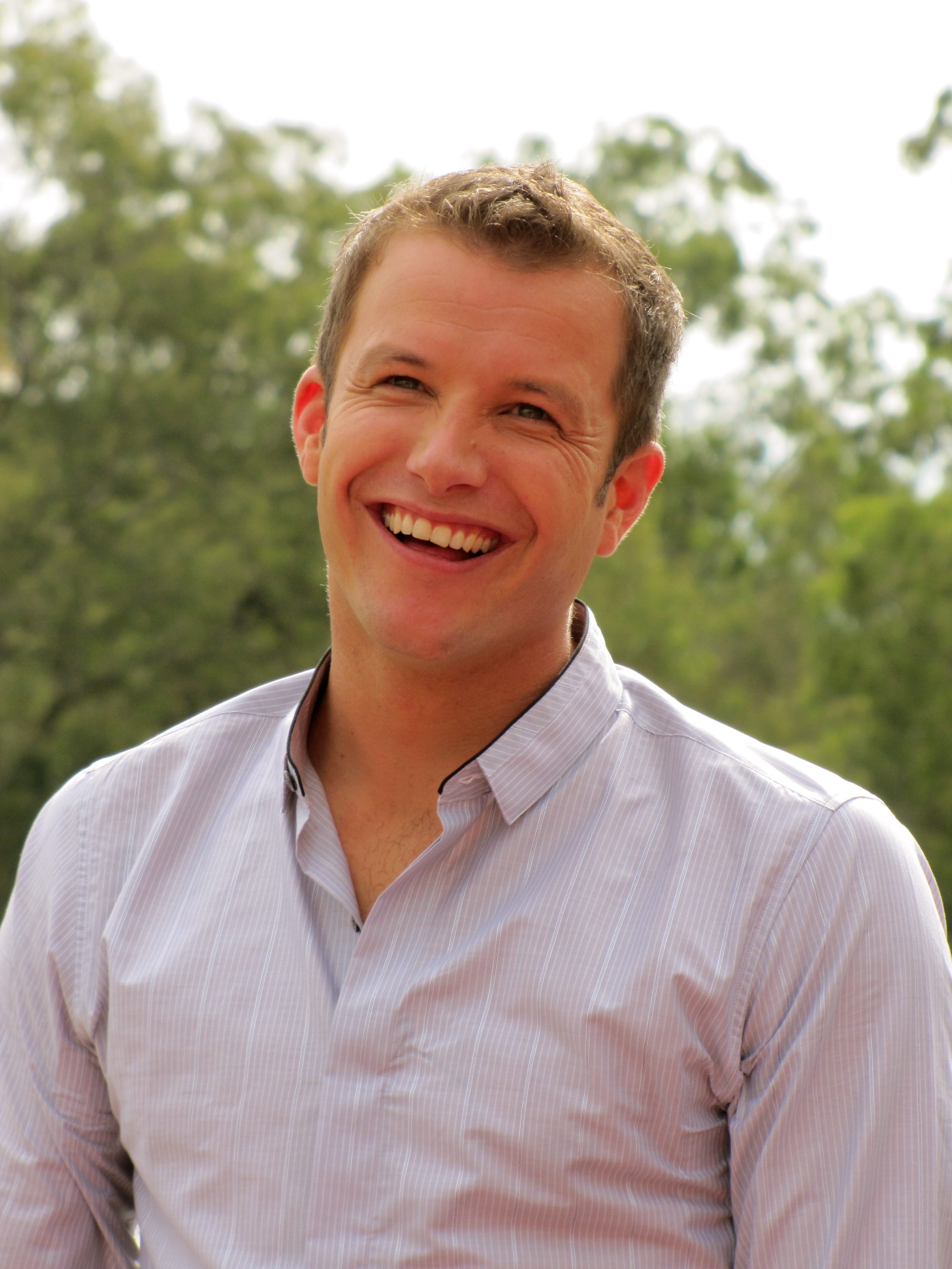 X Factor Auditions at Brisbane Entertainment Centre, May 2011